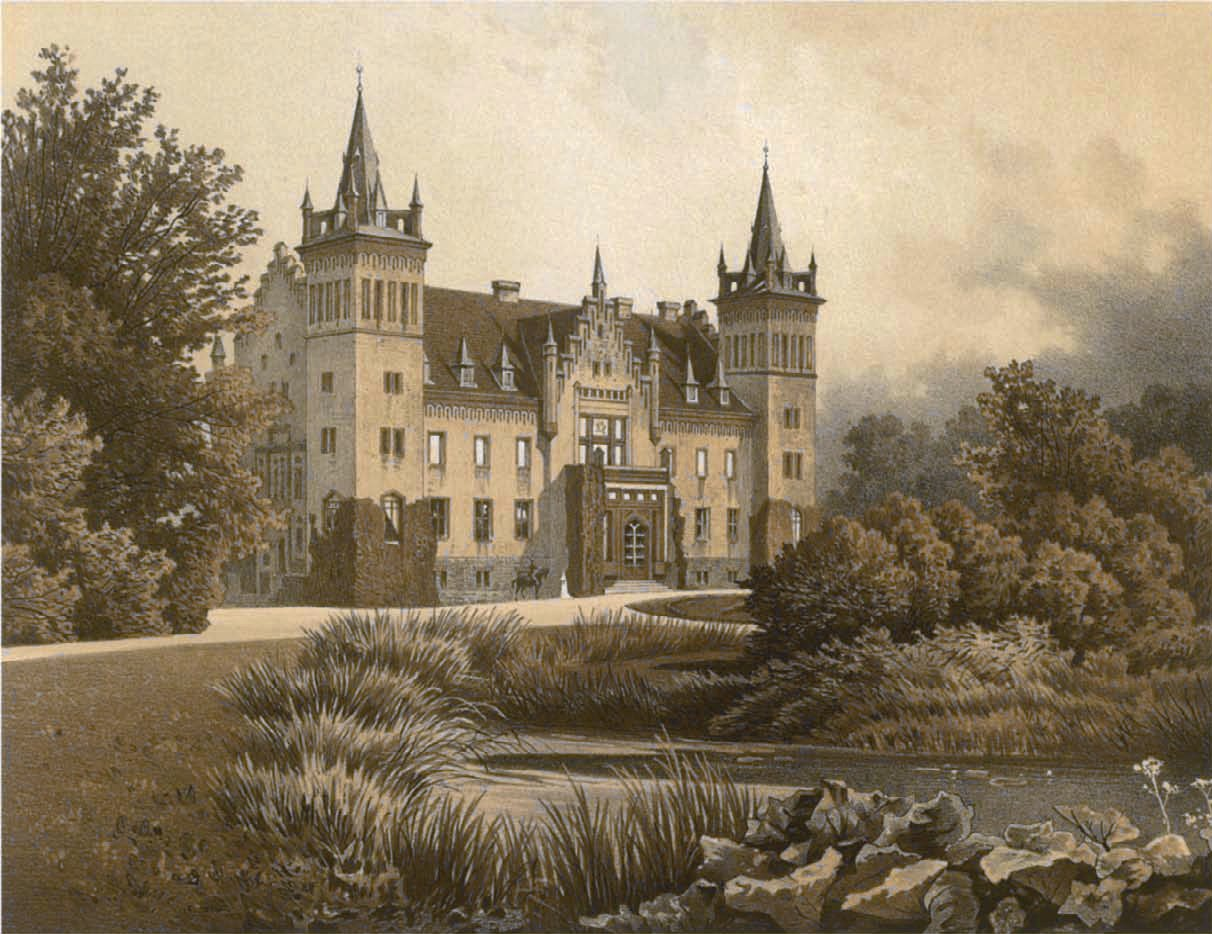 Palace in Rozbitek